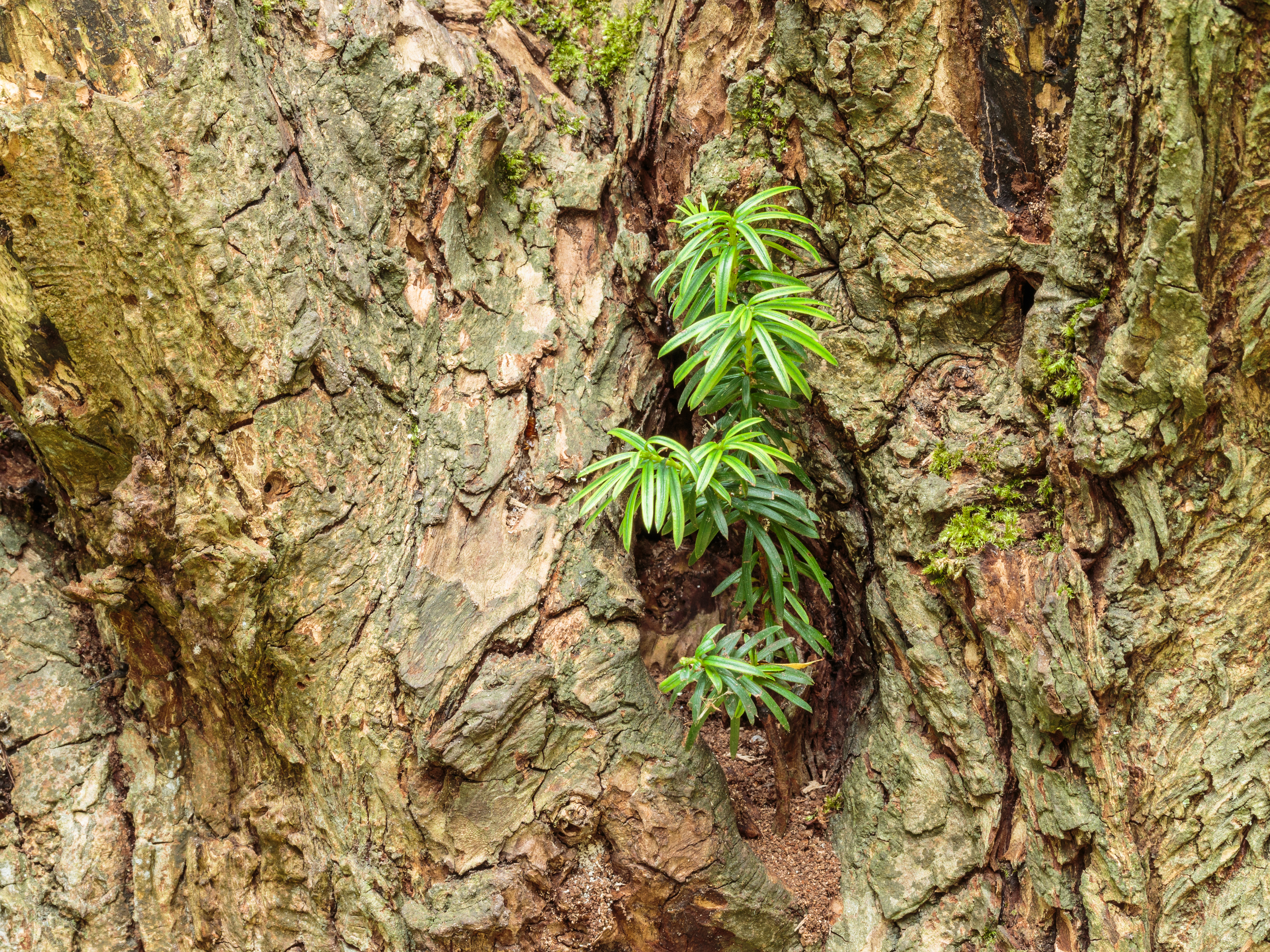 Taxus seeded in a gap of a Pollard willow. at 1.20 meters above the ground.